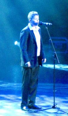 Andrew Johnston performing at the Britain's Got Talent live tour